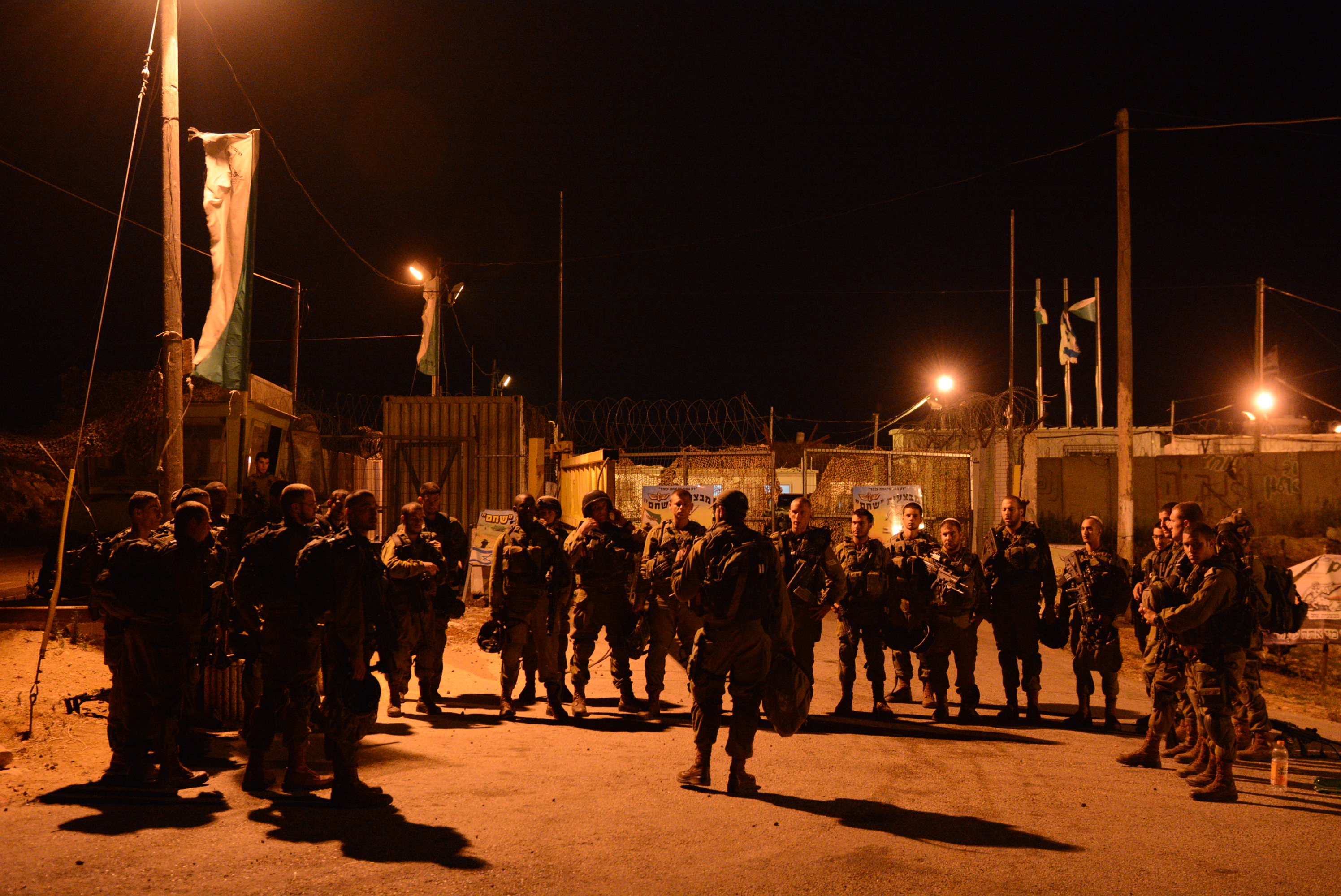 On the night of June 12, three Israeli teenagers suddenly went missing in Judea and Samaria. Our forces are relentlessly searching for them, operating under the presumption that they were kidnapped by Palestinian terrorists. These exclusive photos show the efforts of the IDF soldiers in Judea and Samaria. The names of the abducted Israelis are Eyal Yifrach (age 19), Gilad Shaar (age 16), and Naftali Frenkel (age 16). Our mission is to bring them home as quickly as possible. We will do everything to #BringBackOurBoys For more updates: The Israel Defense Forces Facebook The Israel Defense Forces blog Follow us on Twitter